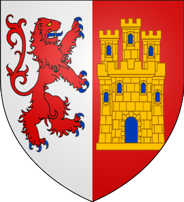 Arms of de Mauleon impaled with those of de Plaigne (France)